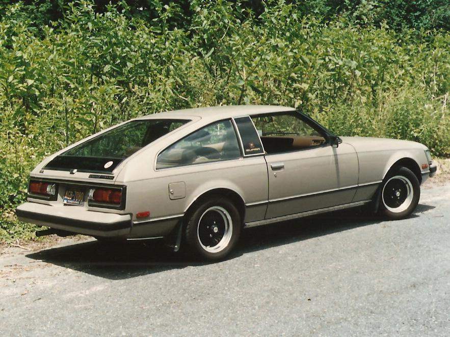 1980 Toyota Supra